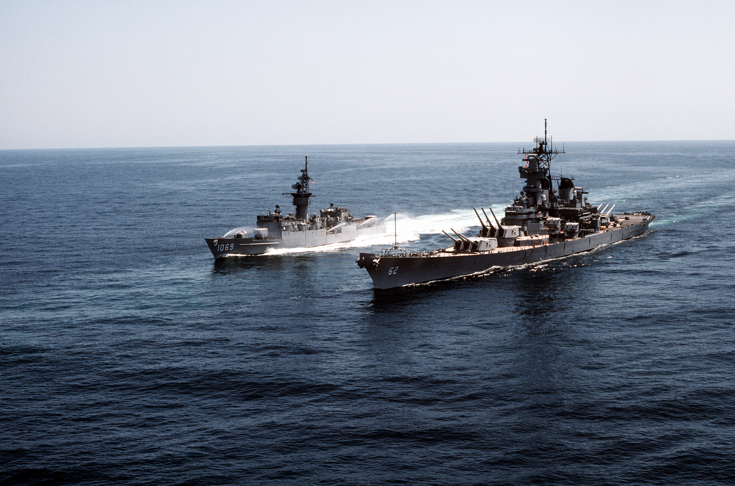 Aerial port bow view of the battleship USS NEW JERSEY (BB-62) (right) and the frigate USS BAGLEY (FF-1069). The ships are part of a task group underway off the coast of California.